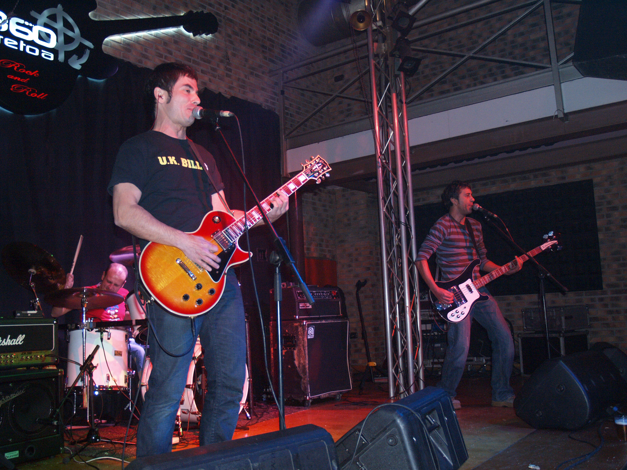 E.H. Sukarra band at 3.60.